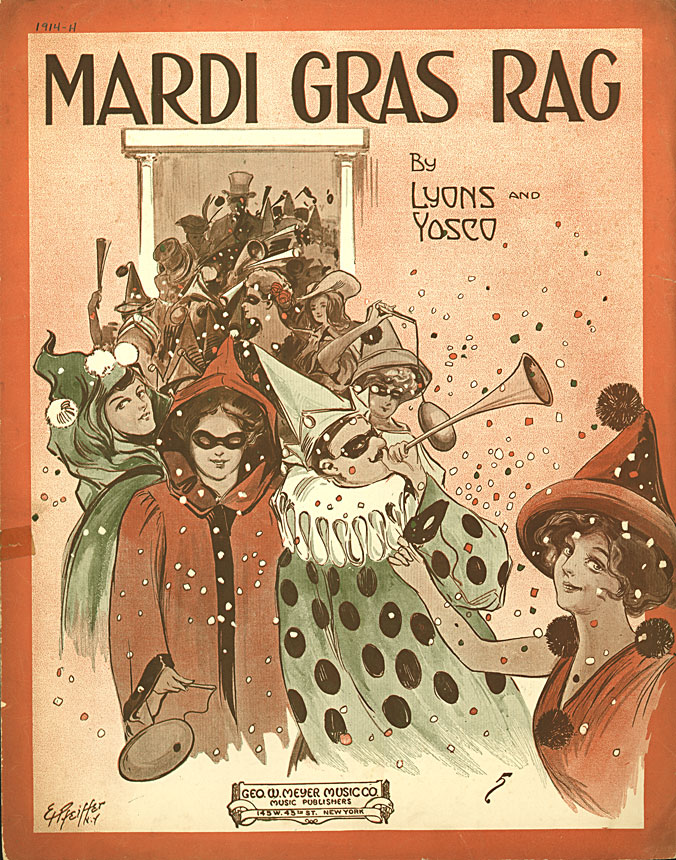 "Mardi Gras Rag" 1914 sheet music cover